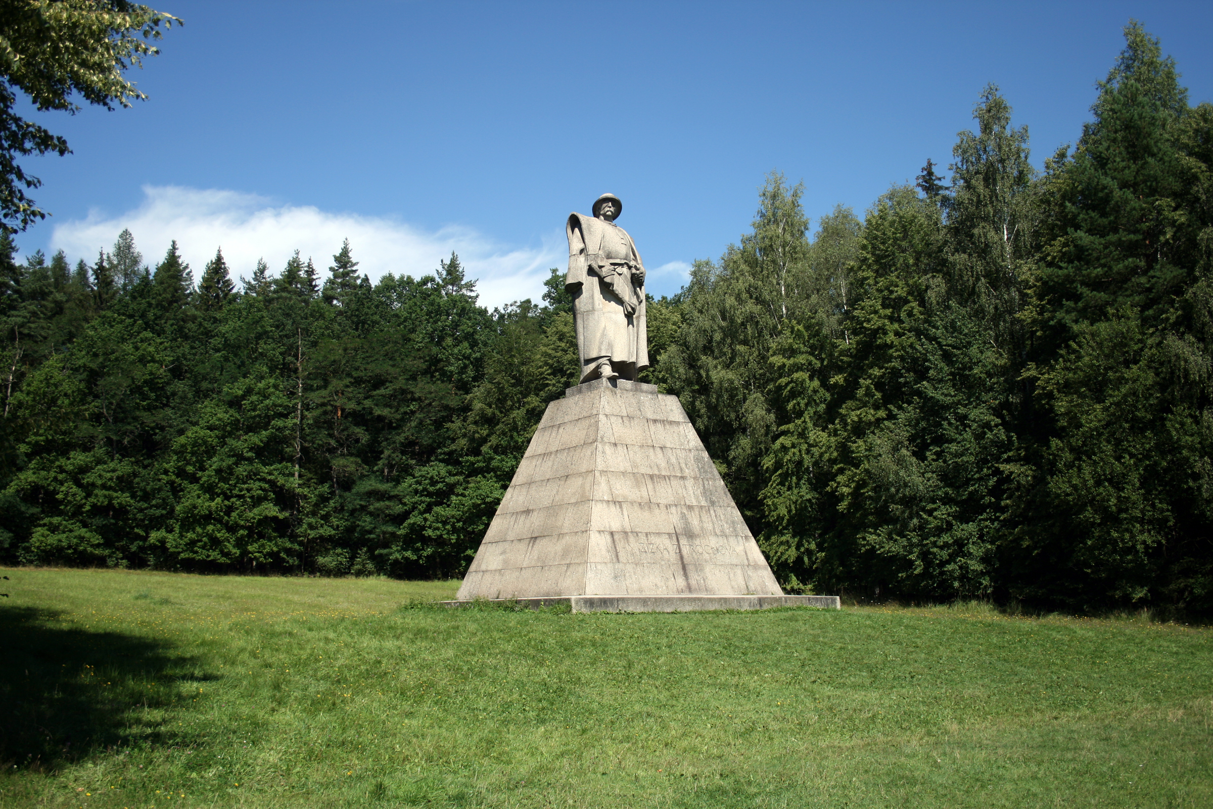 Monument of commander of Hussite army Jan Žižka near Trocnov, South Bohemia, Czech Republic, academically sculptor Josef Malejovský (granite of Liberec), 1960